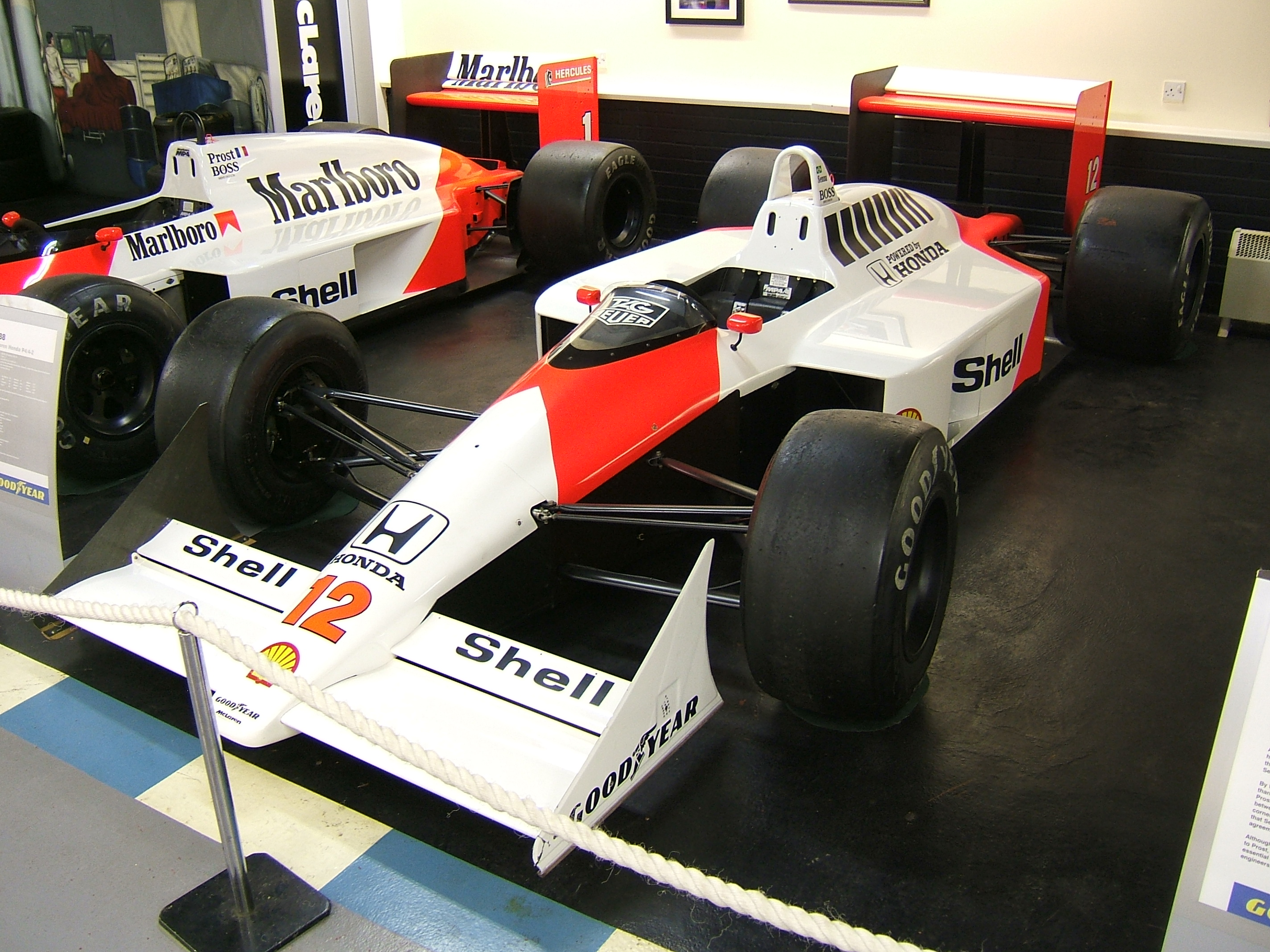 Ayrton Senna McLaren MP4/4. In the Donington Grand Prix Collection museum, Leics., UK.